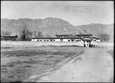 Lhalu mansion near Lhasa